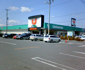 Universe Minami-ruike Shops